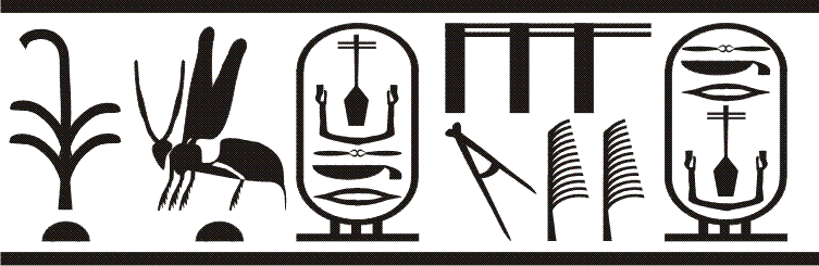 seal impression of king Neferkasokar; reproduction from P. Kaplony, "Die Rollsiegel des Alten Reiches, Volume II, 1981, plate1